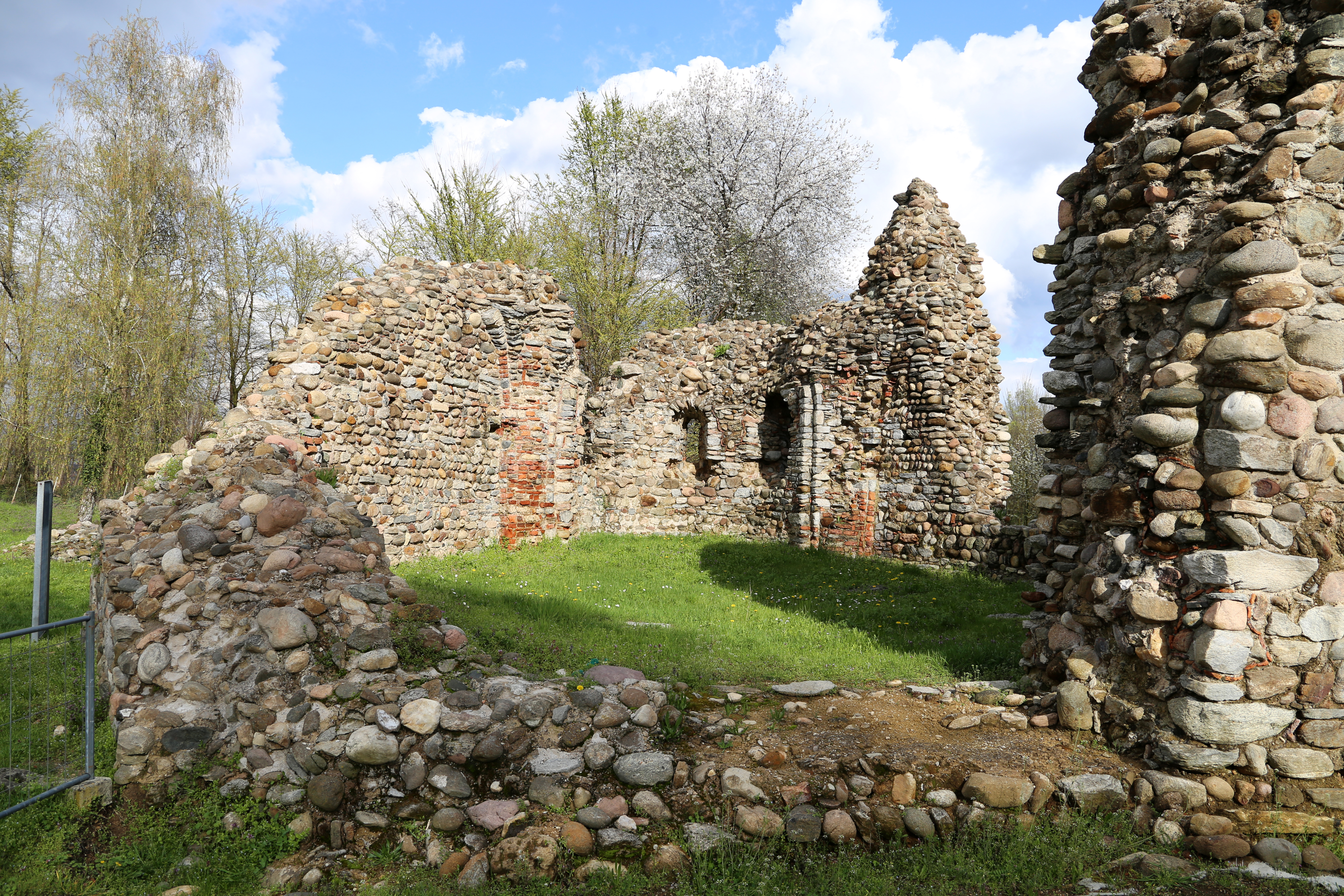 Castrum in Castelseprio